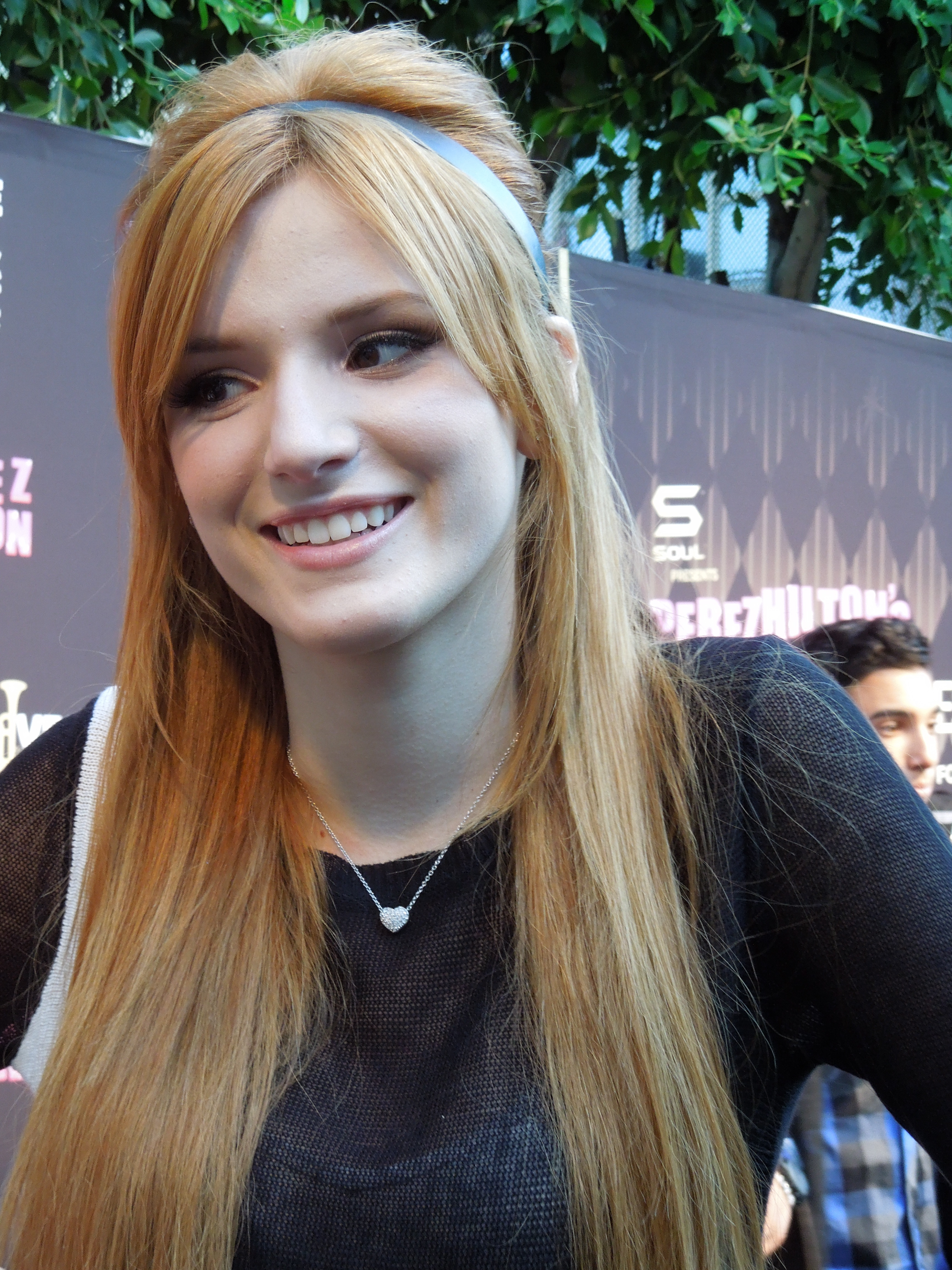 Bella Thorne at the Perez Hilton's One Night In... L.A. (September 2012).